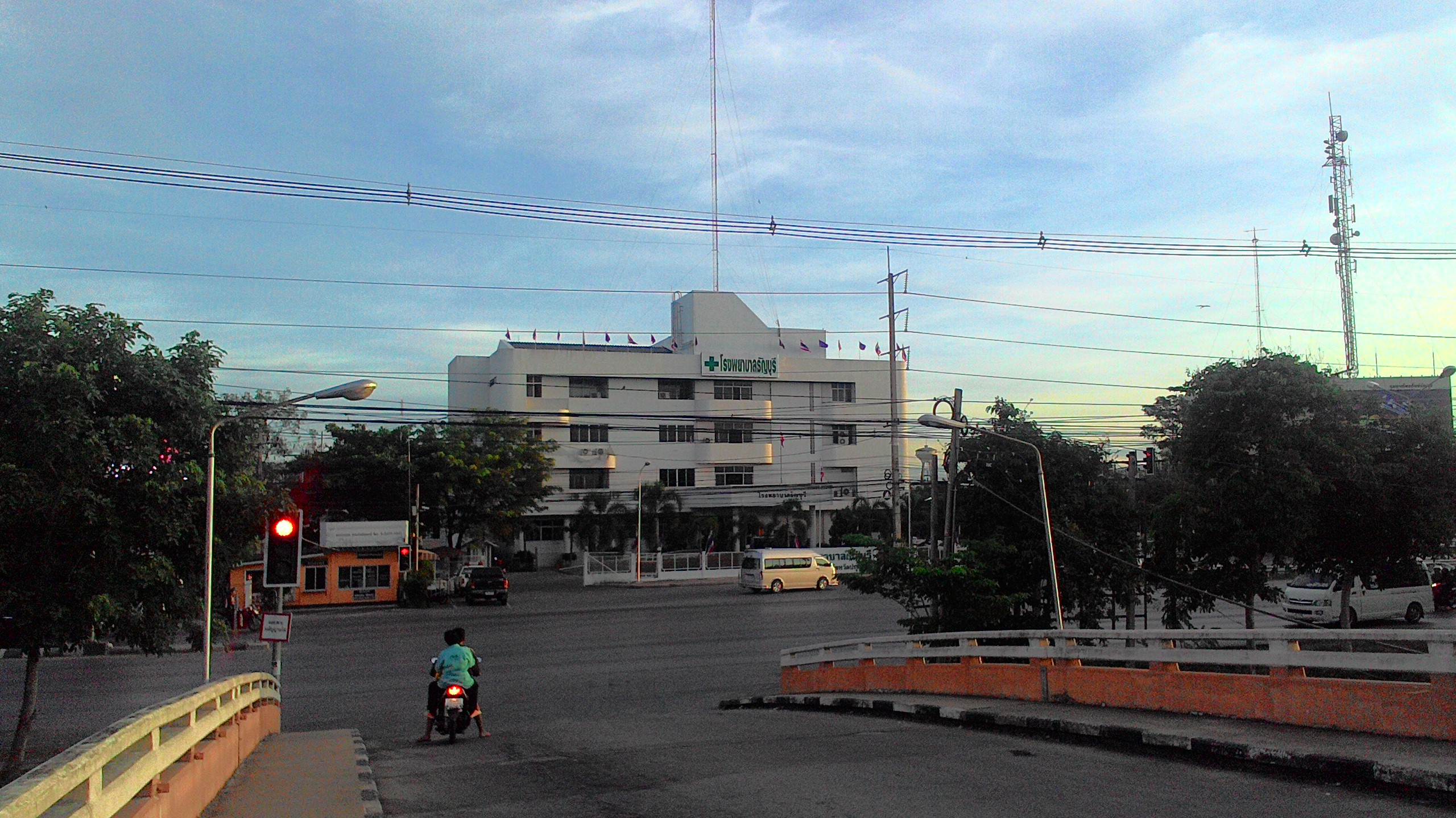 Rangsit, Thanyaburi District, Pathum Thani, Thailand